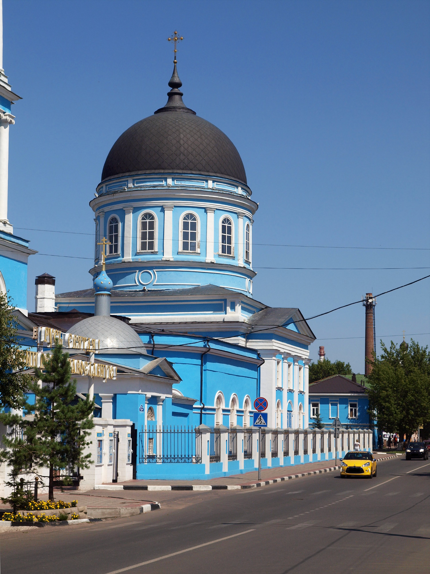 Cathedral of the Epiphany, Noginsk, Moscow Oblast, Russia. Built in 1820s and 1860s.